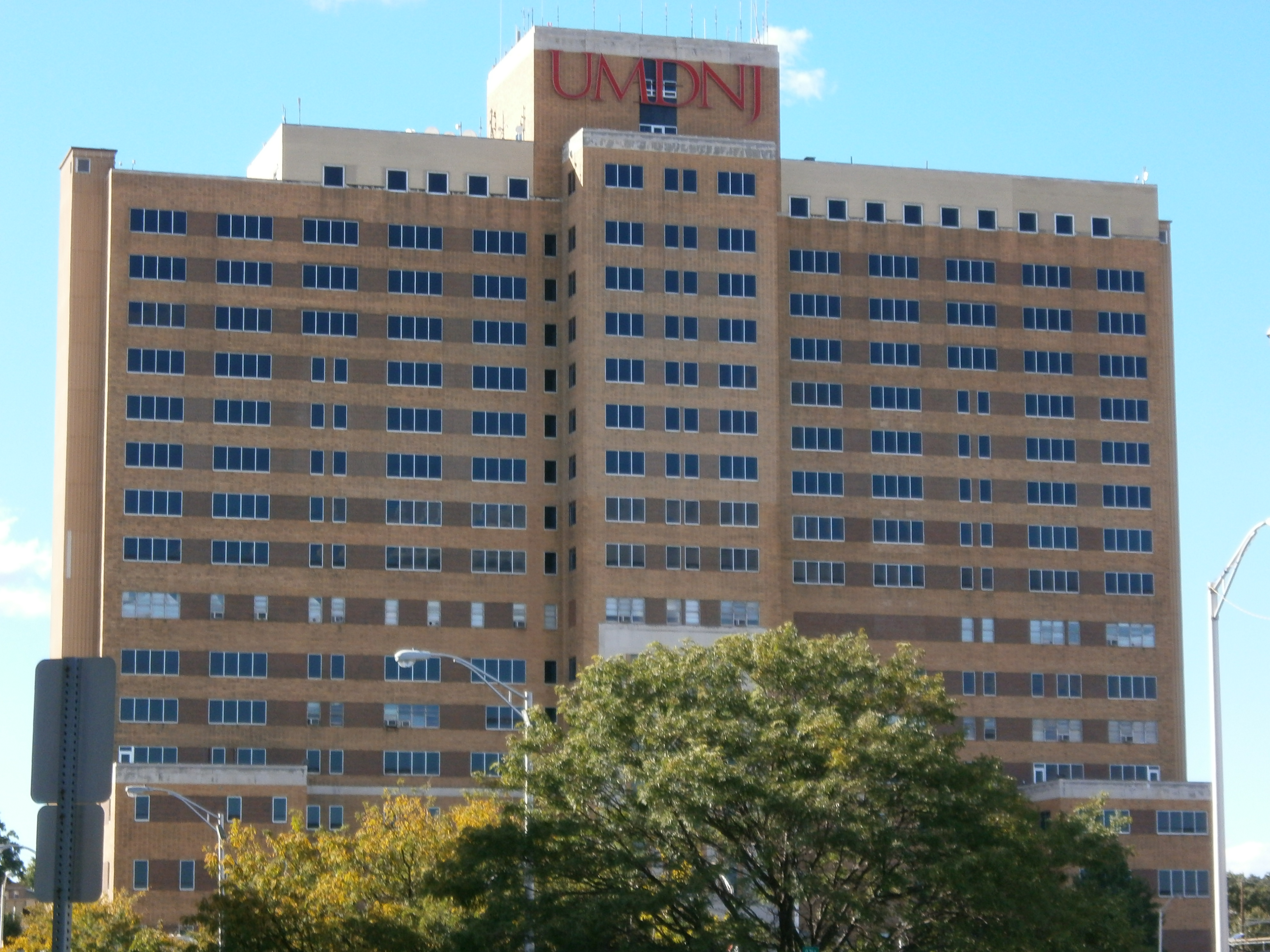 formerly known as Martland Hospital, Martland Medical Center, Newark City Hospital, The Harrison S. Martland Center